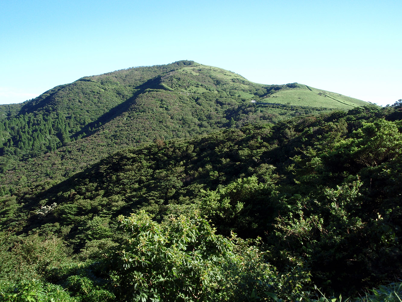 A ｍountaintop of Mount Daruma as seen from the north in Shizuoka Prefecture, Japan.